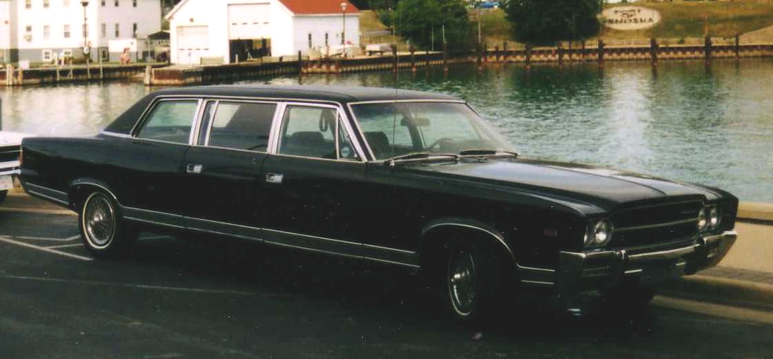 1969 American Motors Corporation (AMC) Ambassador limousine